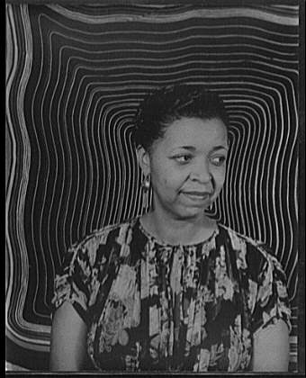 Ethel Waters photographed by Carl Van VechtenEthel Waters